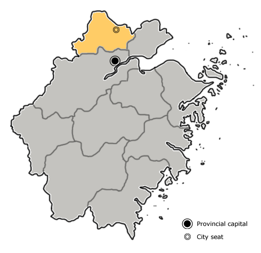 The prefecture-level city of Huzhou is highlighted on this map of Zhejiang province, People's Republic of China.